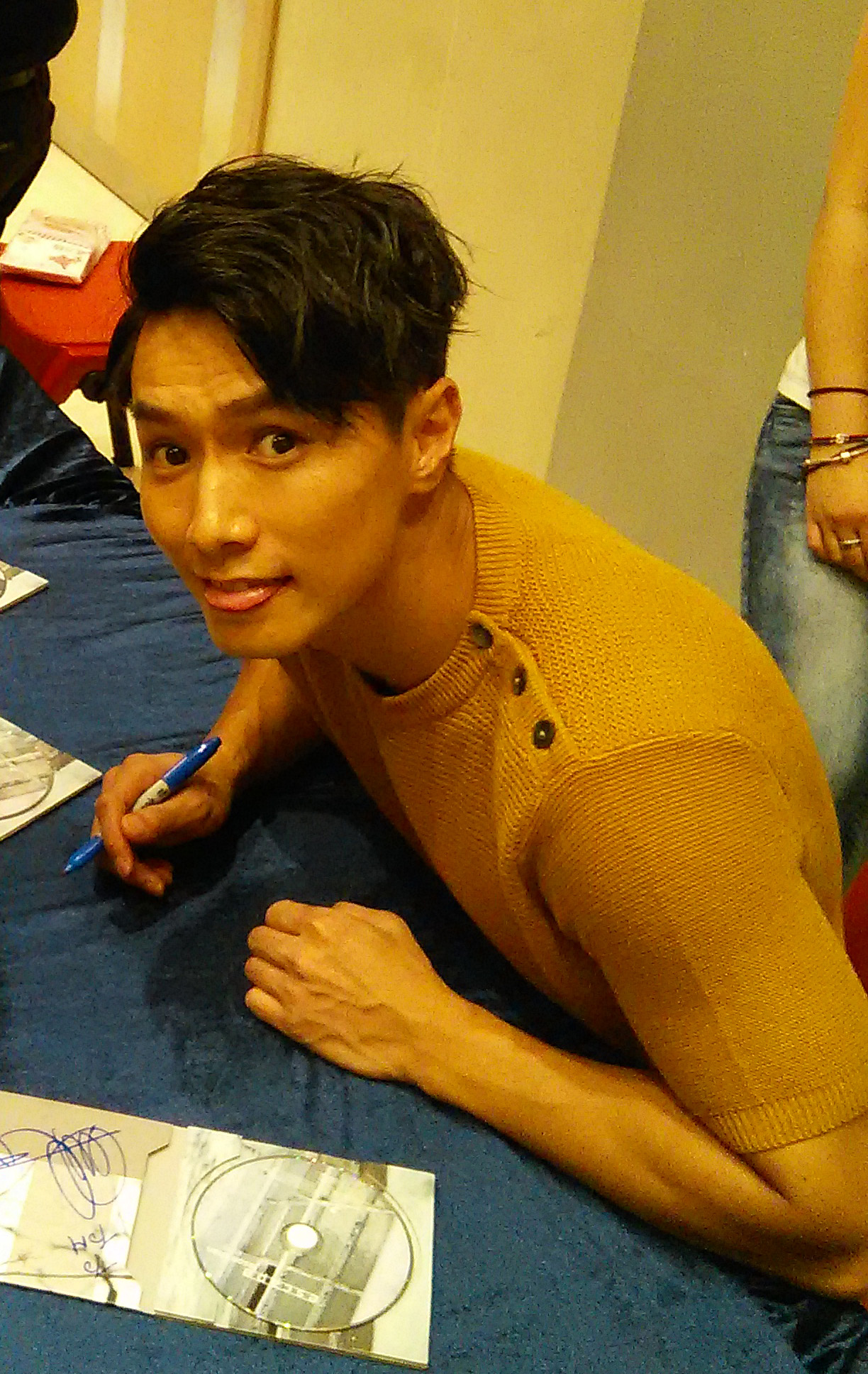 Jason Chan are having an autograph session at MacPherson Stadium, Mongkok